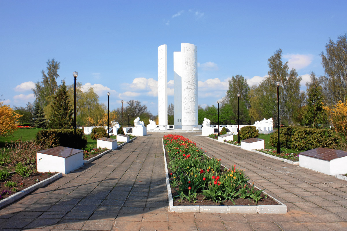 мемориальный комплекс воинам